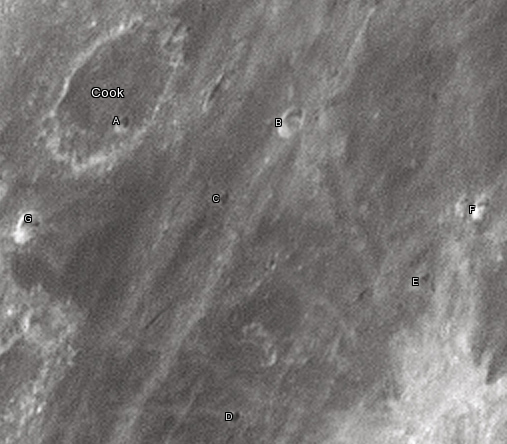 Cook lunar crater as seen from Earth with satellite craters labeled